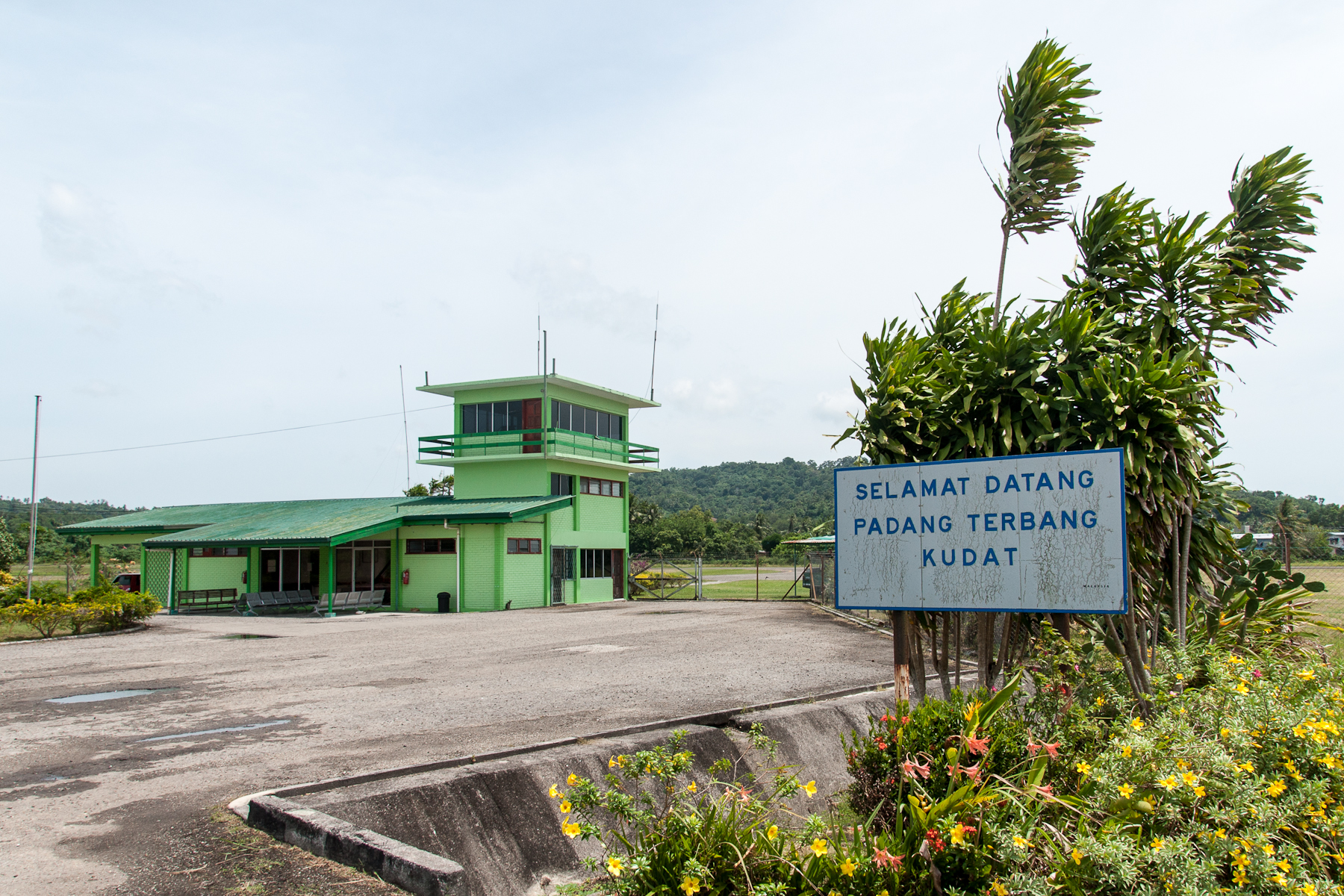 Kudat, Sabah: Airport Kudat (Lapangan Terbang Kudat)